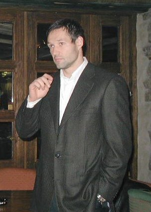 Erki Nool